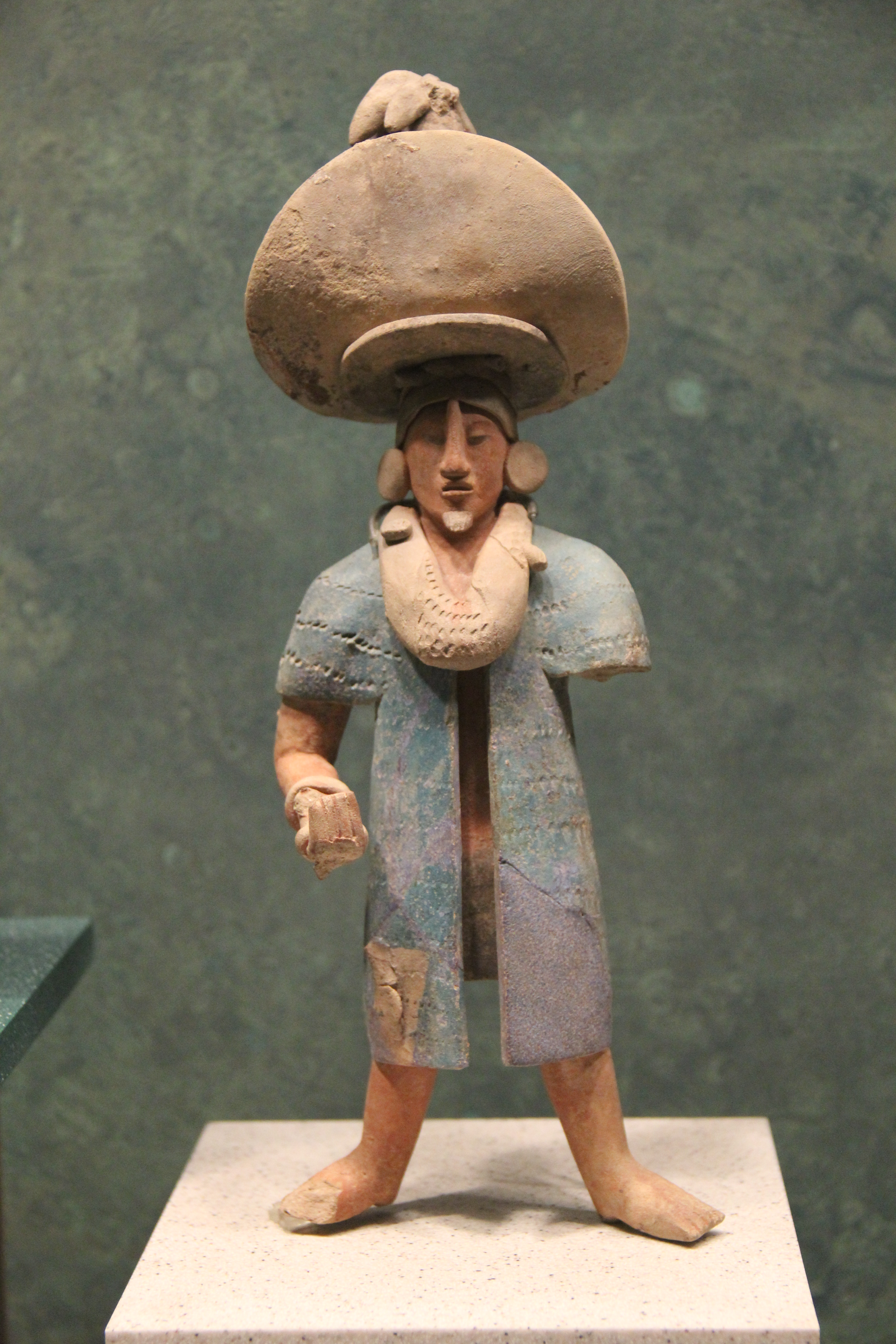 Maya Gallery, INAH, National Museum of Anthropology, Mexico City. Complete indexed photo collection at .